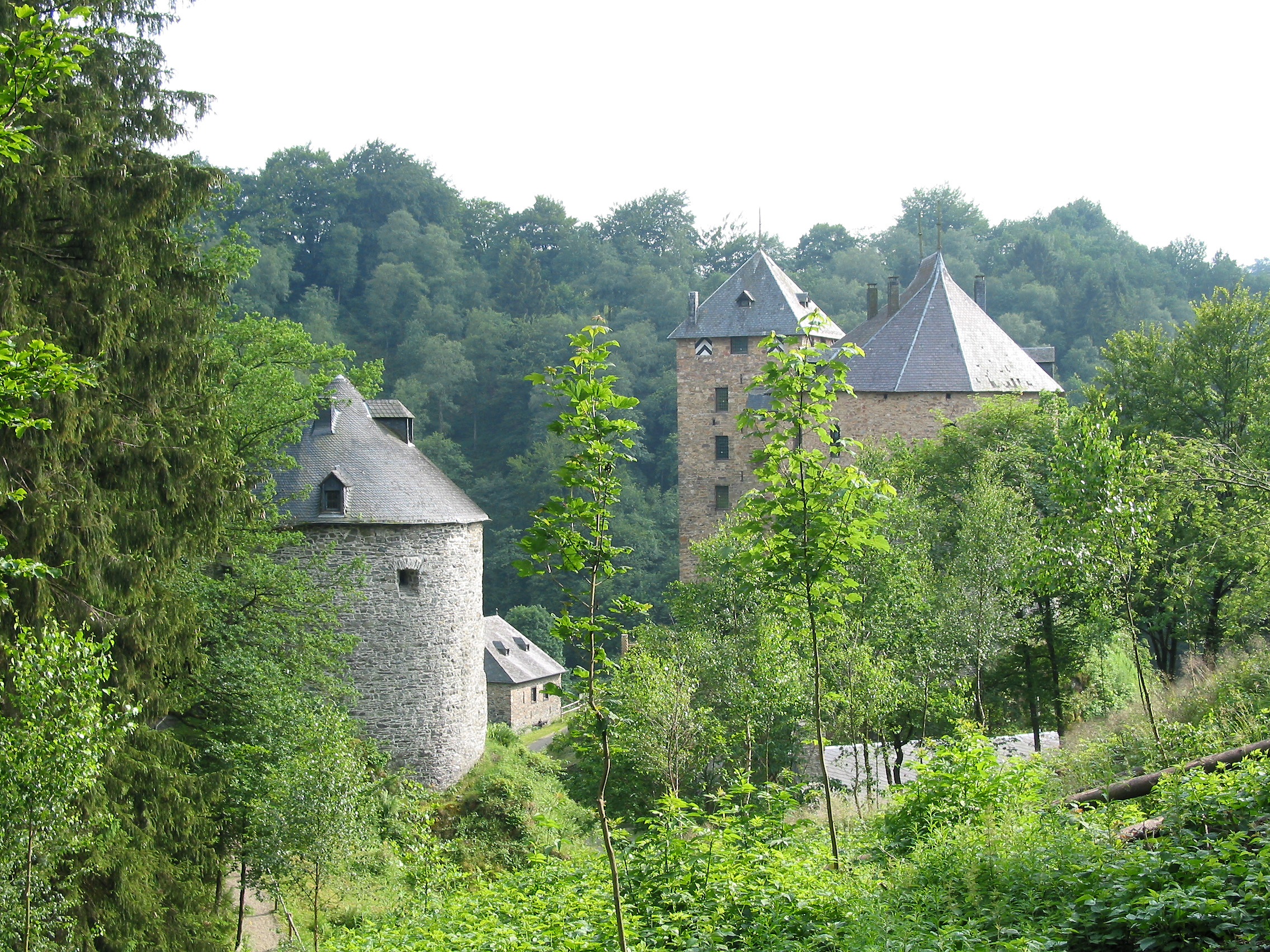 Waimes (Belgium), Reinhardstein castle (1354).